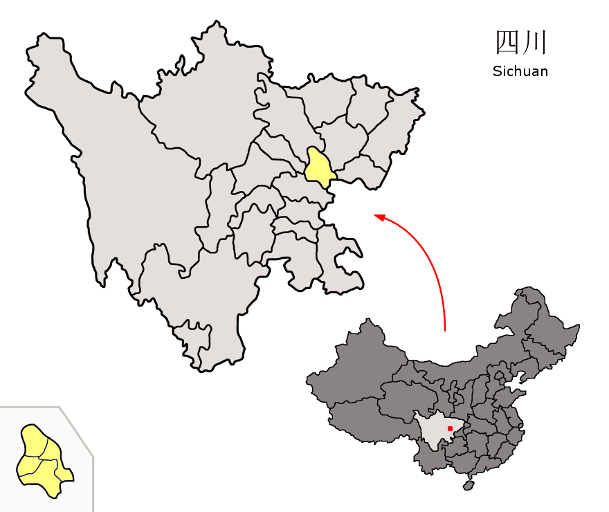 Location of Suining Prefecture (yellow) within Sichuan province of China Map drawn in october 2007 using various sources, mainly : Sichuan province administrative regions GIS data: 1:1M, County level, 1990 Sichuan Counties map from